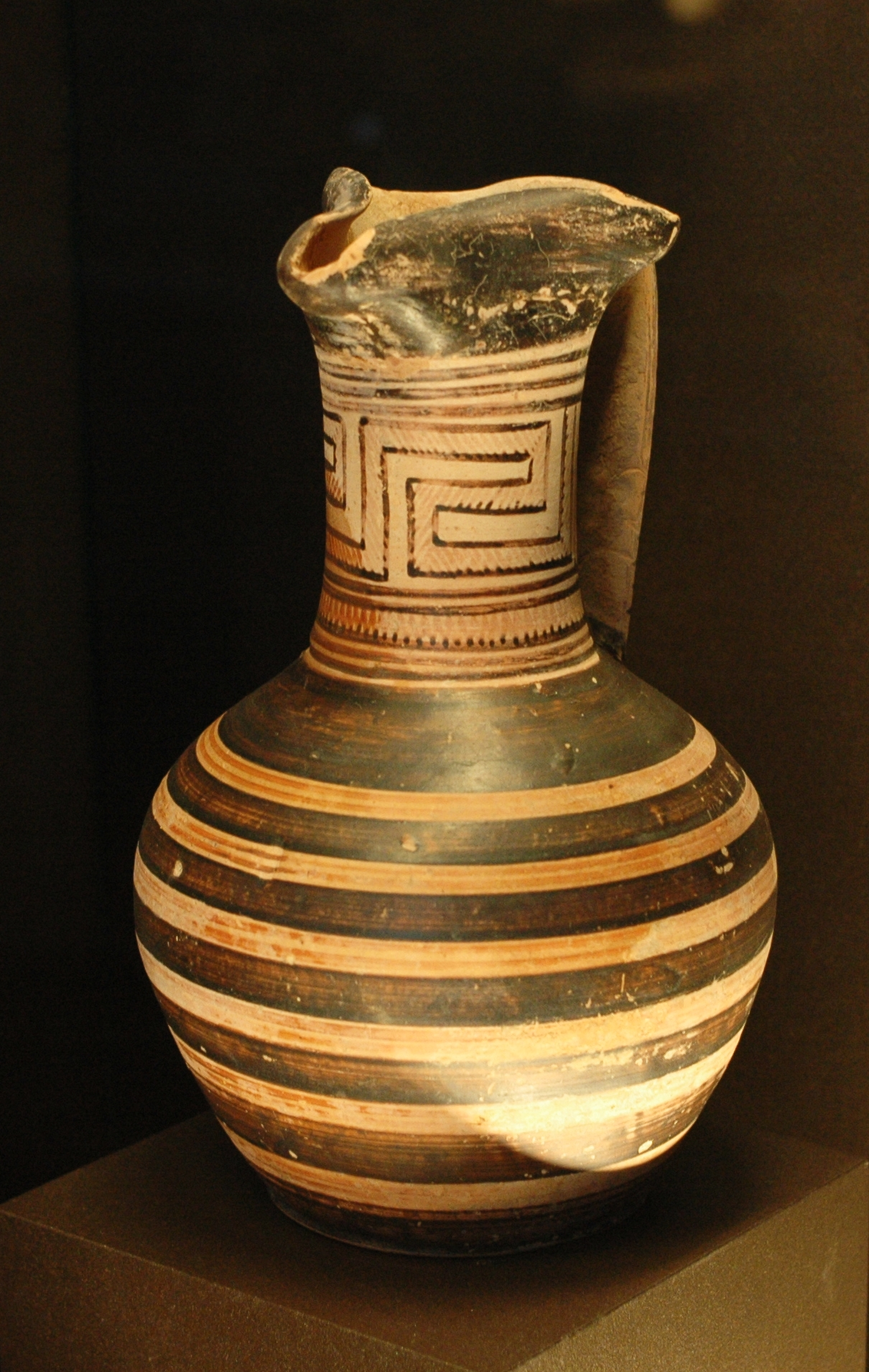 Oinochoe from Athens, ca. 800 BC (Middle Geometric).